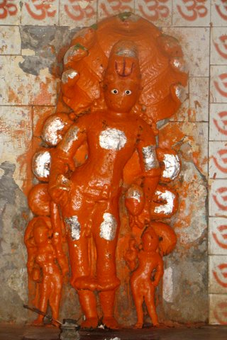 Taxaka Statue at Taxakeshwar Temple in Mandsaur district Madhya Pradesh, India